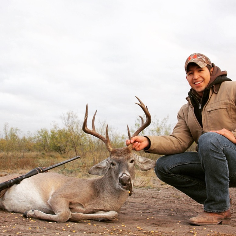 Harvested Odocoileus virginianus, Salitrillo Ranch in Guerrero, Coahuila, México